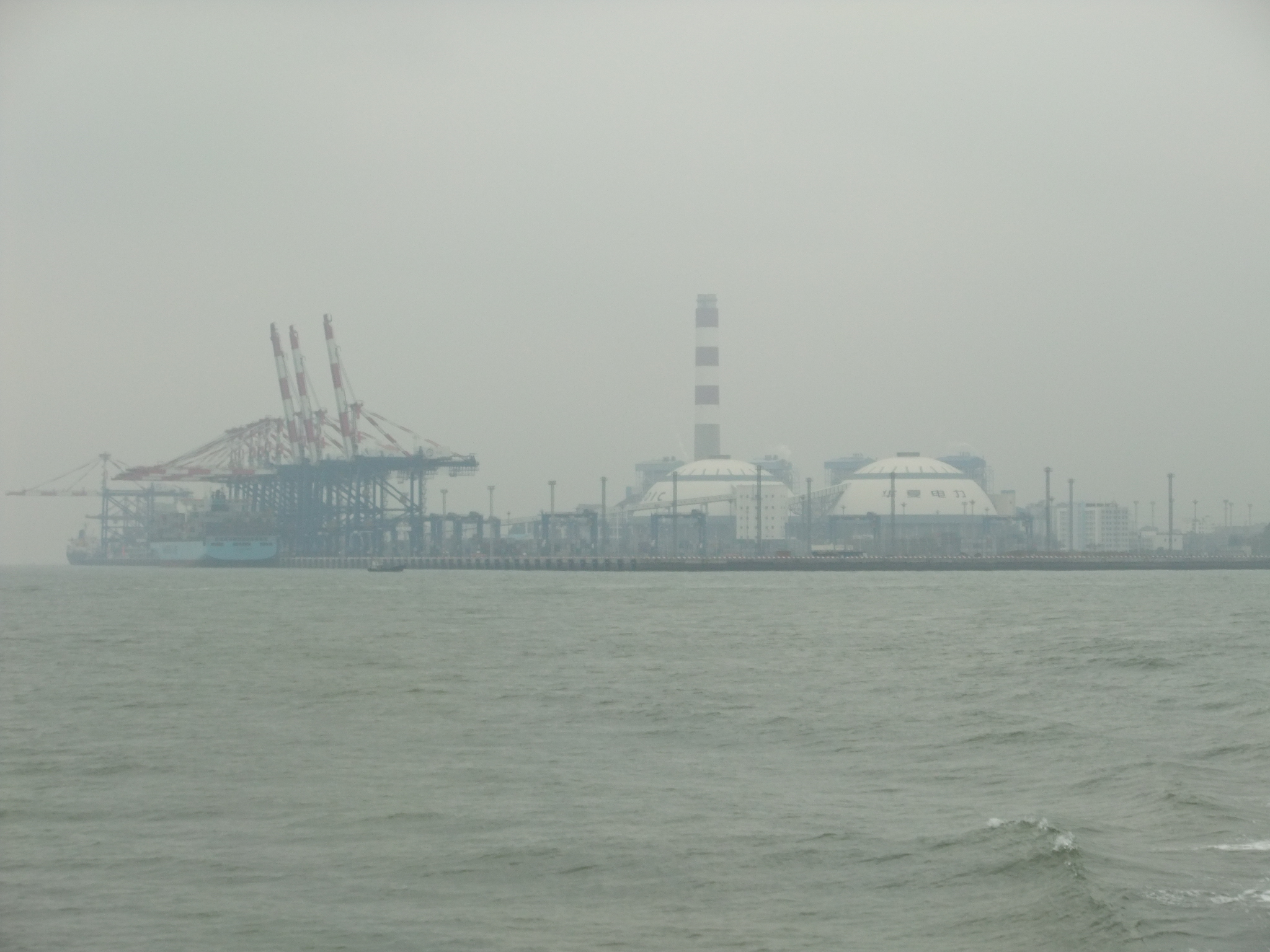 Port facilities in Haicang District, Xiamen. Seen from a boat passing somewhere west of Gulangyu Island.